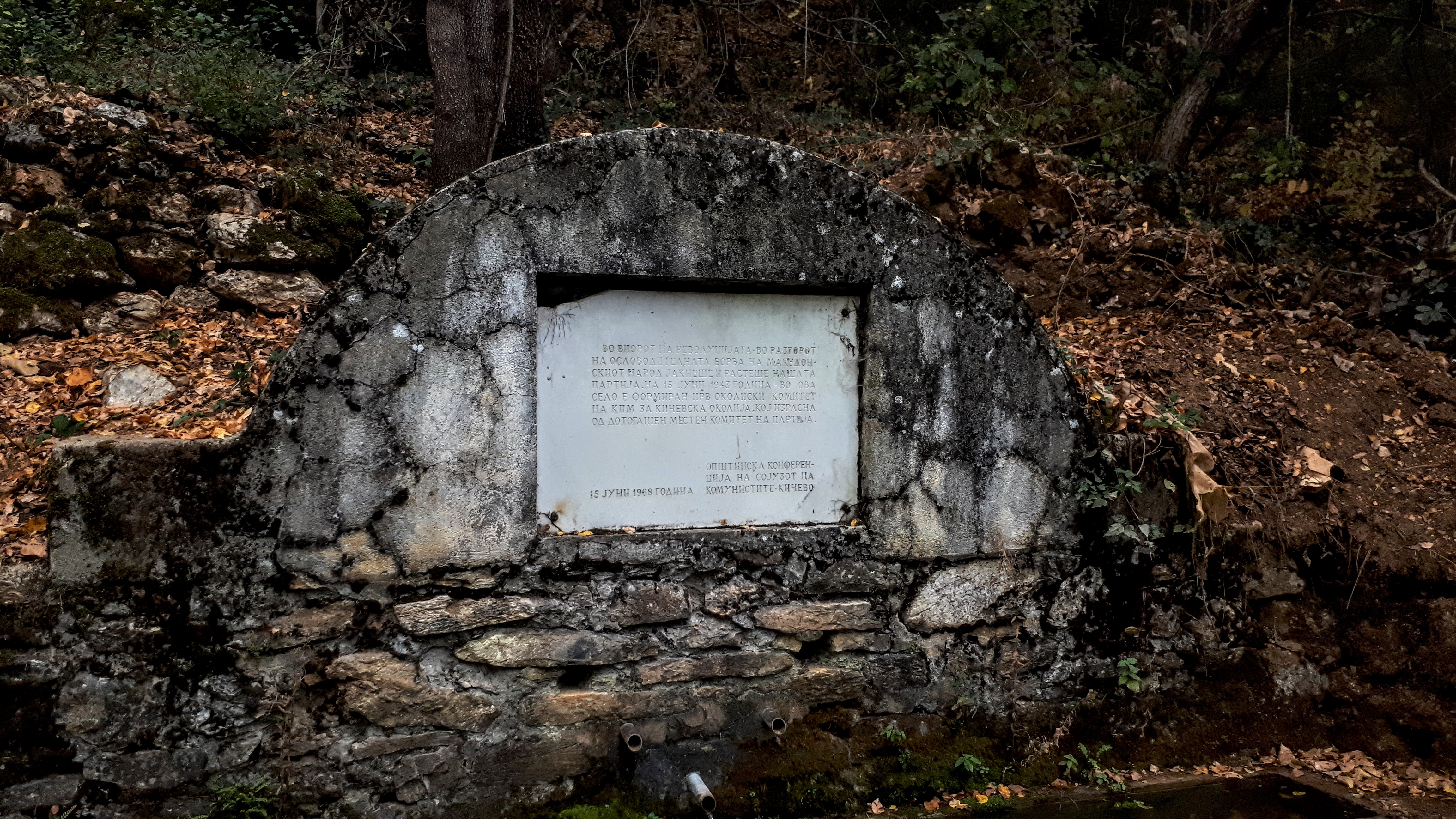 Village pump in Podvis